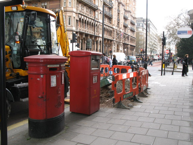 (Part of) Woburn Place, WC1. Shows the location of 760827 with the Hotel Russell in the background.